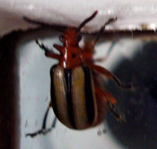 A beetle, unknown species